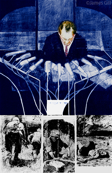 James Gill's painting "The Machines". Created around 1965